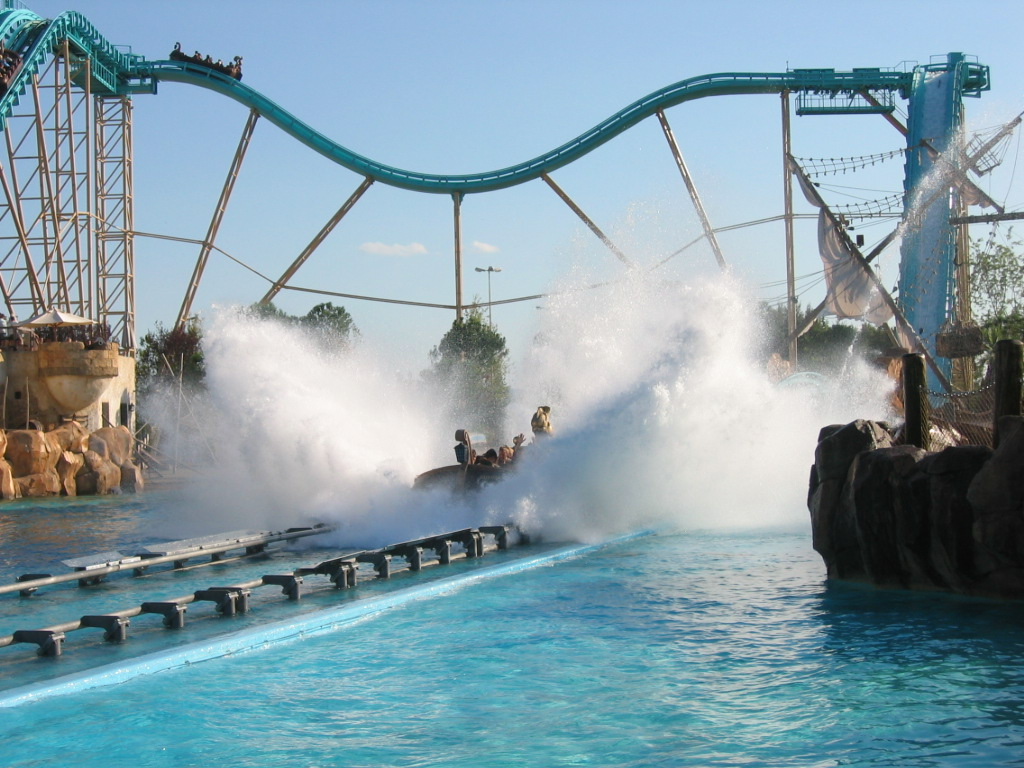 Atlantica SuperSplash, Europa-Park, Rust, Baden-Württemberg, Germany.